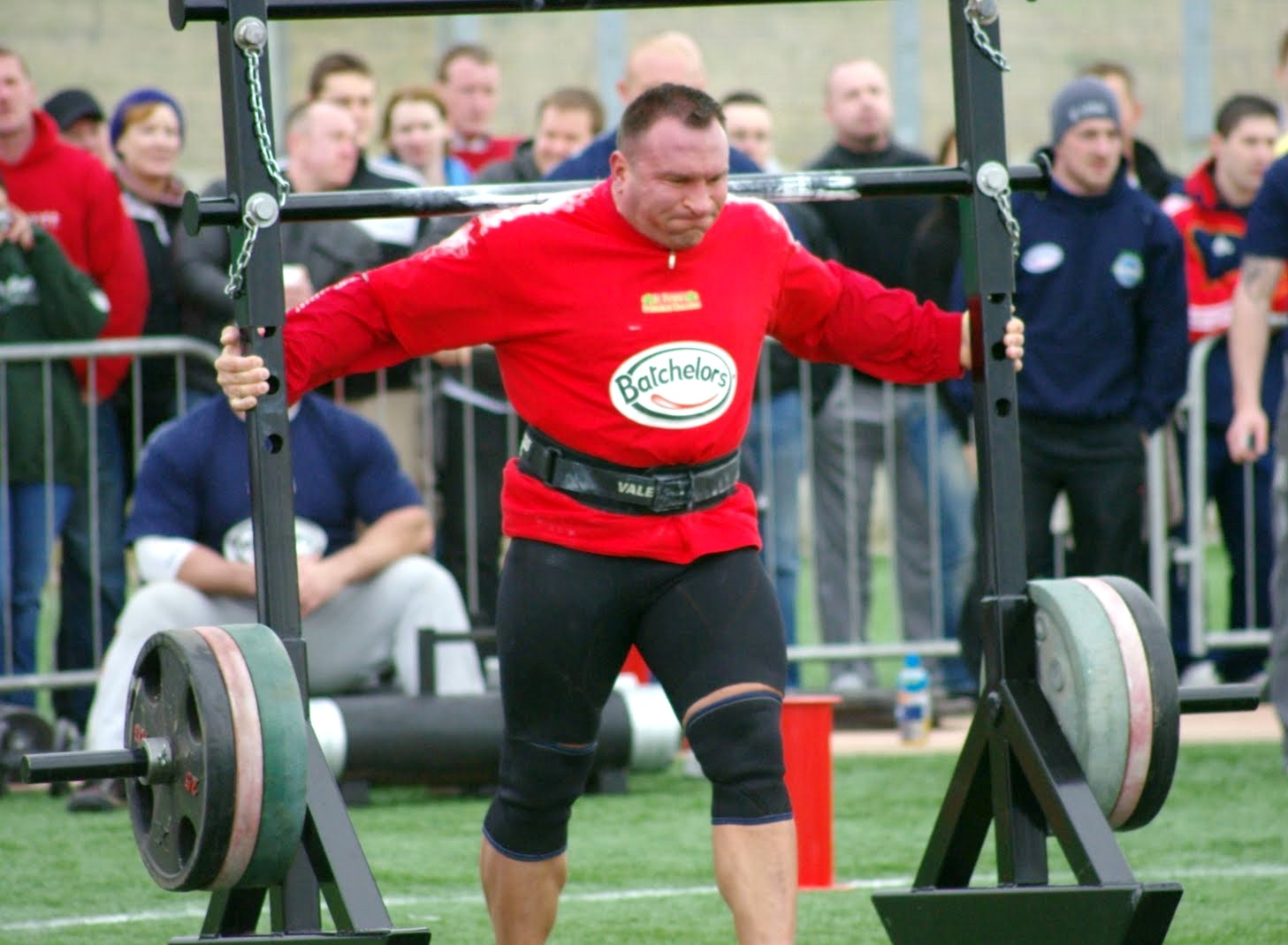 Jarek Dymek at the Yoke Walk.